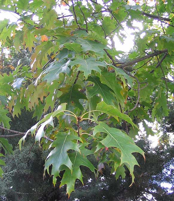 Leaves of Quercus rubra (Northern red oak)